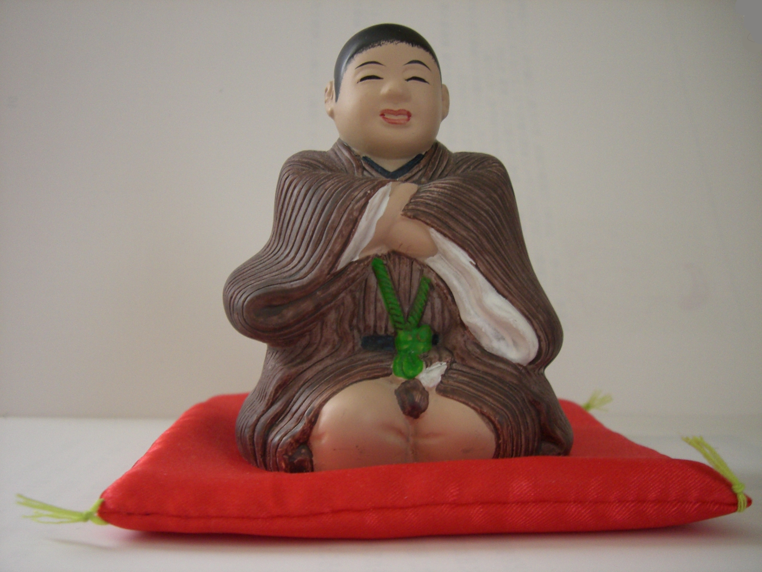 A doll of 仙台四郎.